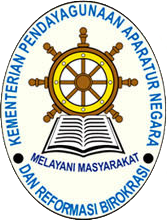 Logo of the Ministry of Administrative and Bureaucratic Reform of the Republic of IndonesiaBahasa Indonesia: Logo Kementerian Pendayagunaan Aparatur Negara dan Reformasi Birokrasi Indonesia